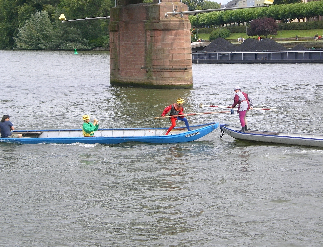 Sea jousting in Frankfurt a.M. on Main river during Mainfest 2009